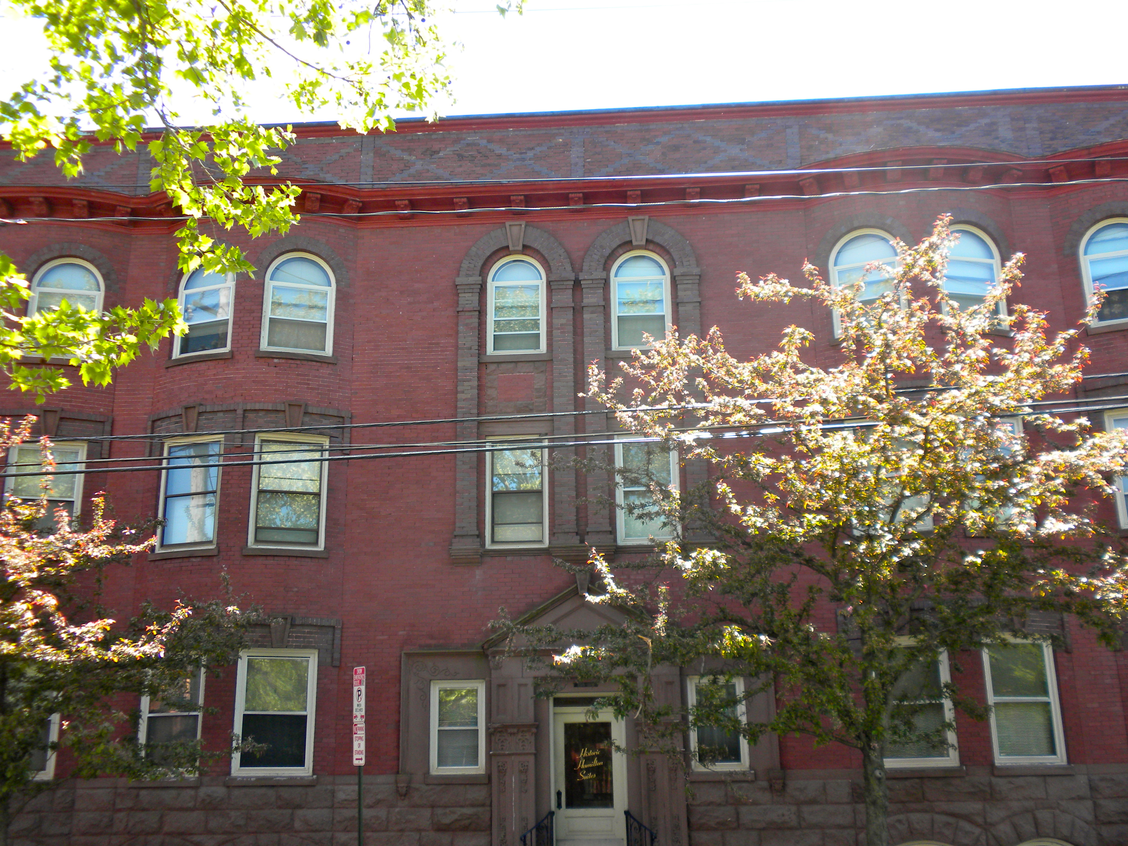 Hamilton Apartments on the NRHP since June 28, 1984. The apartments are at 247–249 North Duke Street and 104–118 East Walnut Street (photo is of Walnut Street) in Musser Park neighborhood of central Lancaster (city), Pennsylvania